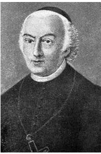 Kardinal Carlo Maria Pedicini (1769-1843)